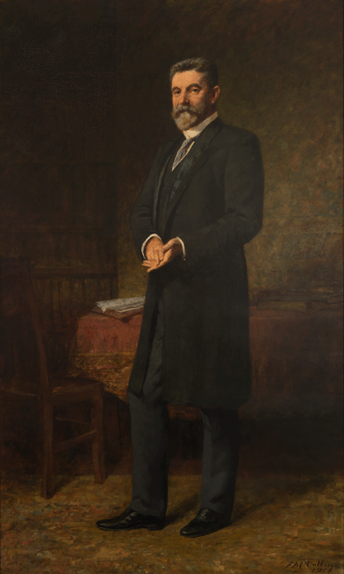 The Hon. Alfred Deakin, Prime Minister of Australia (1903–04, 1905–08, 1909–10).